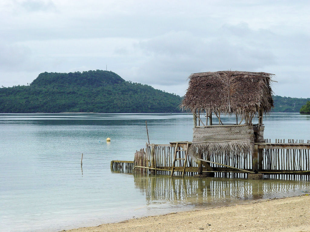 Beach on Vava'u, Tonga